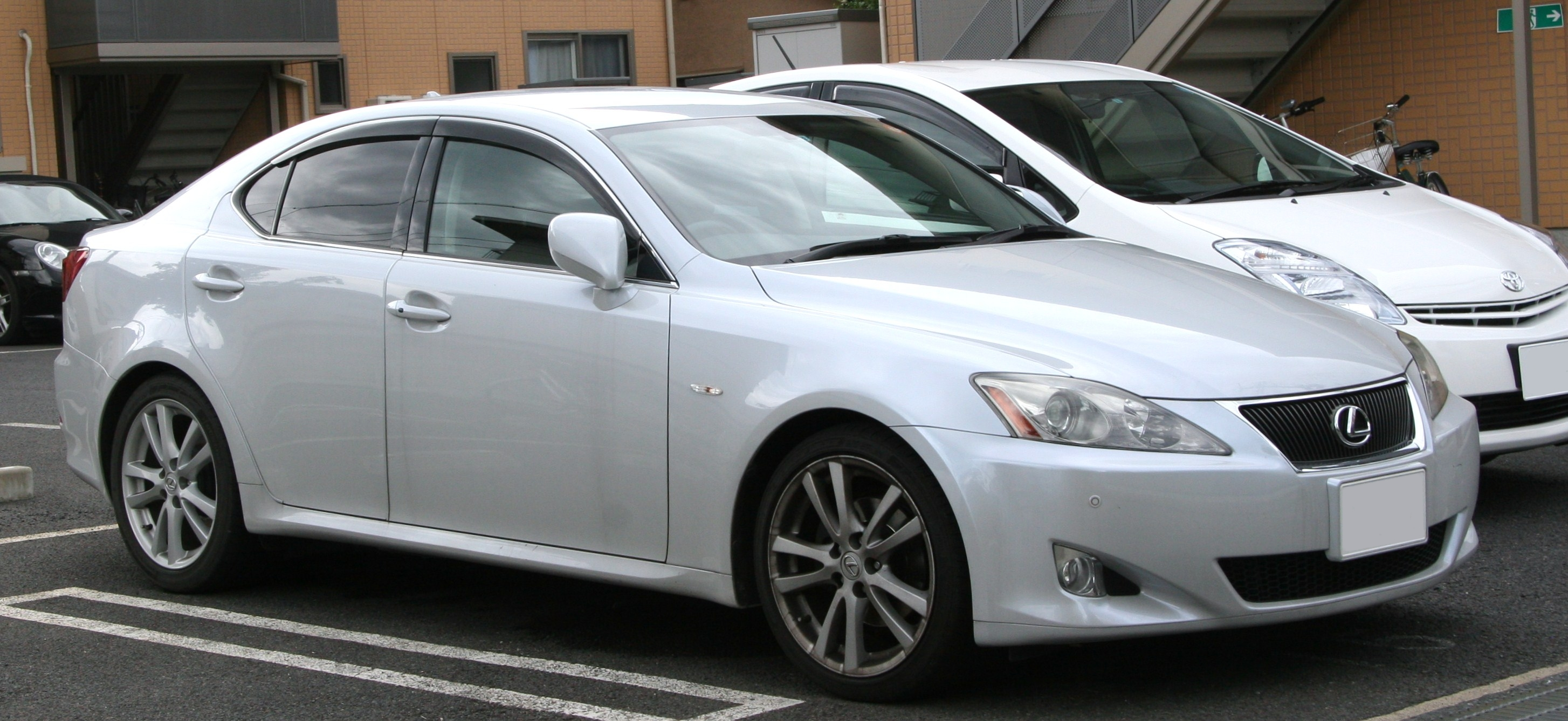 Lexus IS250